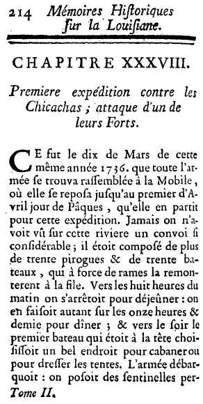 Example page from Dumont de Montigny's 1753 Mémoires historiques sur la Louisiane. Tome II - pp. 214-230 are a primary source for the 1736 Battle of Ackia. Bibliothèque Nationale de France